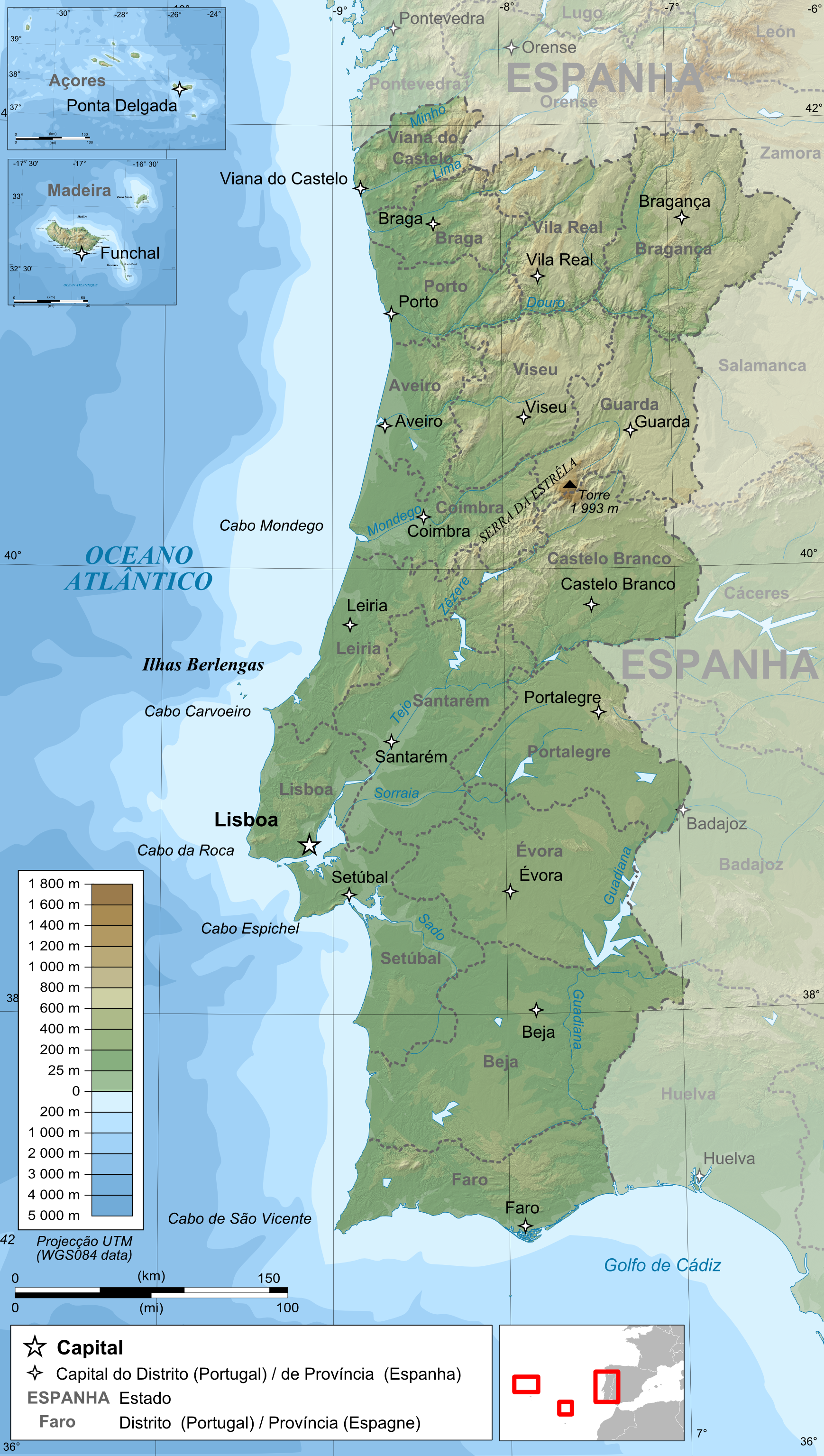 Topographic and administrative map in Portuguese of Portugal